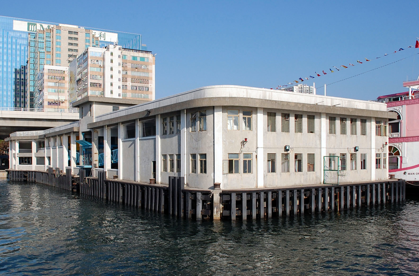 Kwun Tong Ferry Pier, Hong Kong.中文（香港）: 觀塘渡輪碼頭